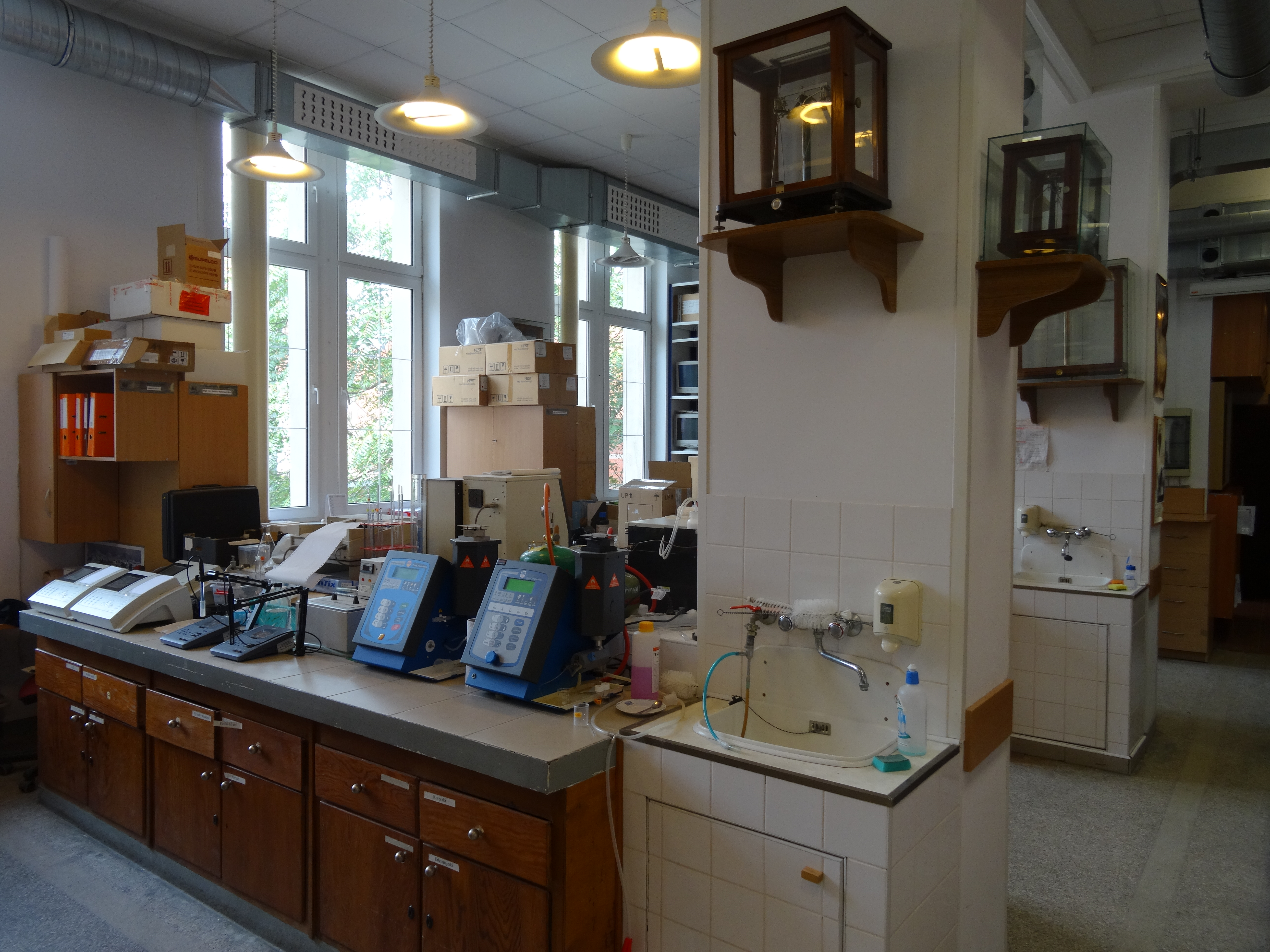 Laboratory, Analytical Chemistry Department, Gdańsk University of Technology